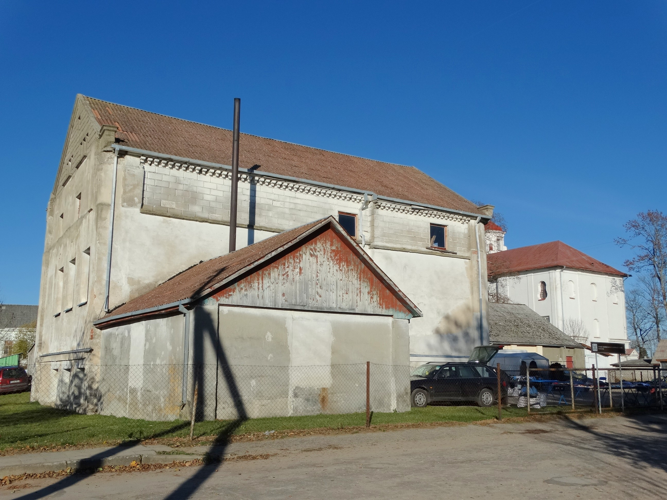 Jieznas, Prienai district, Lithuania